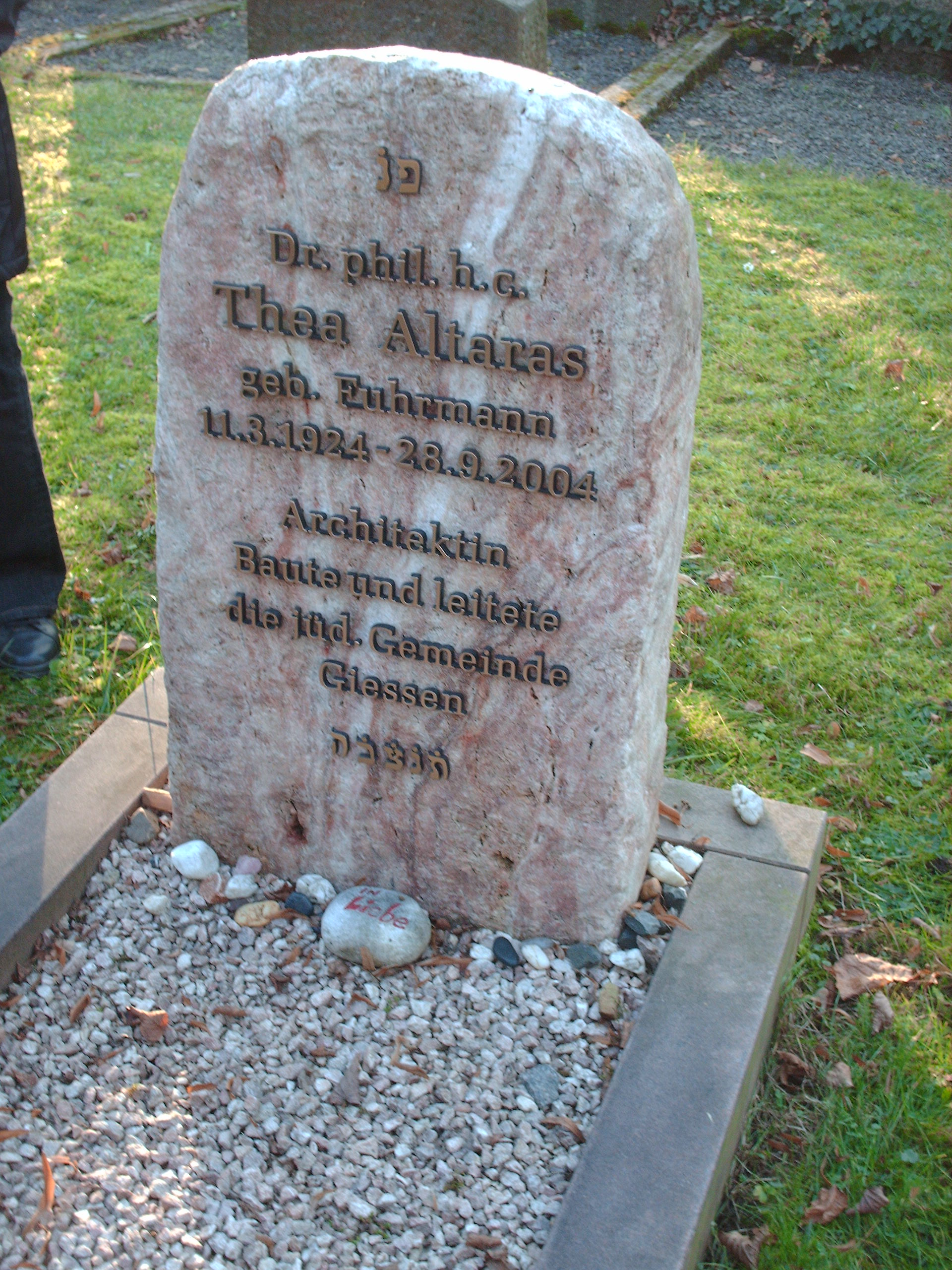 Grave of Thea Altaras, Gießen, Germany check usage